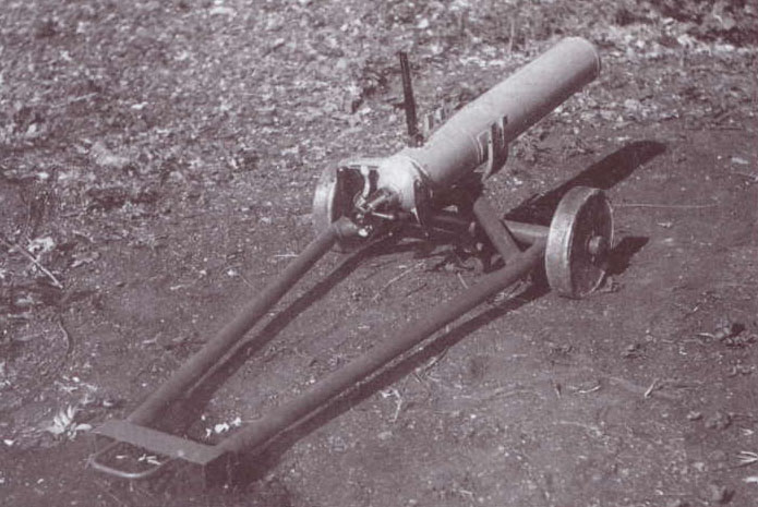 Prototype of the soviet 125 mm ampoule thrower (mortar which shoots incendiary ampoules) during the state tests.